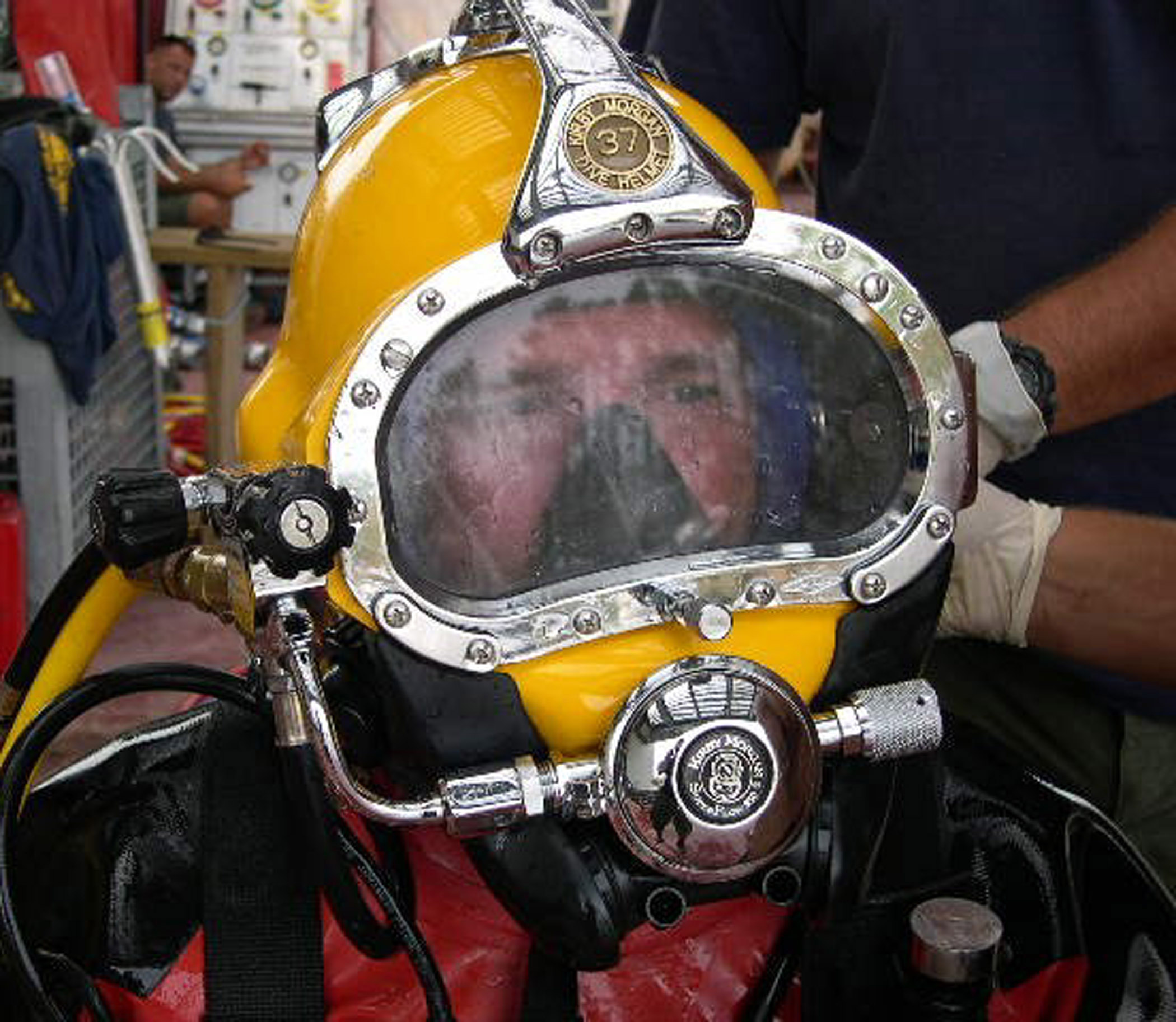 Gulf Coast (Oct. 26, 2005) - Electronics Technician 1st Class Matthew Ammons, a diver assigned to Mobile Diving and Salvage Unit Two (MDSU-2), is fitted with a Kirby Morgan 37 Dive Helmet, one of the Navy's newest dive helmets which is resistant to contaminated underwater environments. MDSU-2 is currently working in the Gulf Coast area as part of Hurricane Katrina search and relief efforts. The Navy's involvement in the humanitarian assistance operations are being led by the Federal Emergency Management Agency (FEMA), in conjunction with the Department of Defense. U.S. Navy photo (RELEASED)